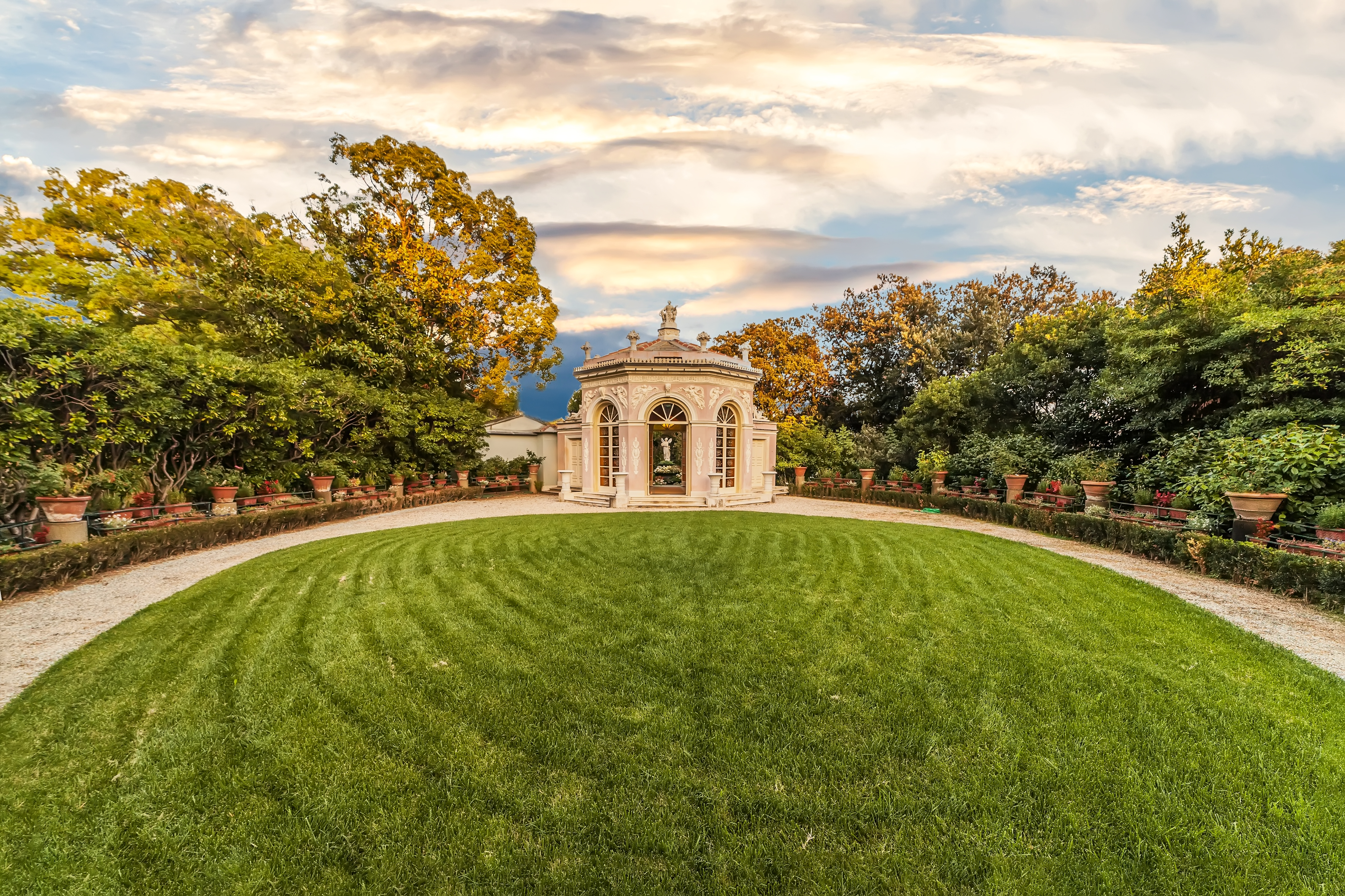 This is a photo of a monument which is part of cultural heritage of Italy.